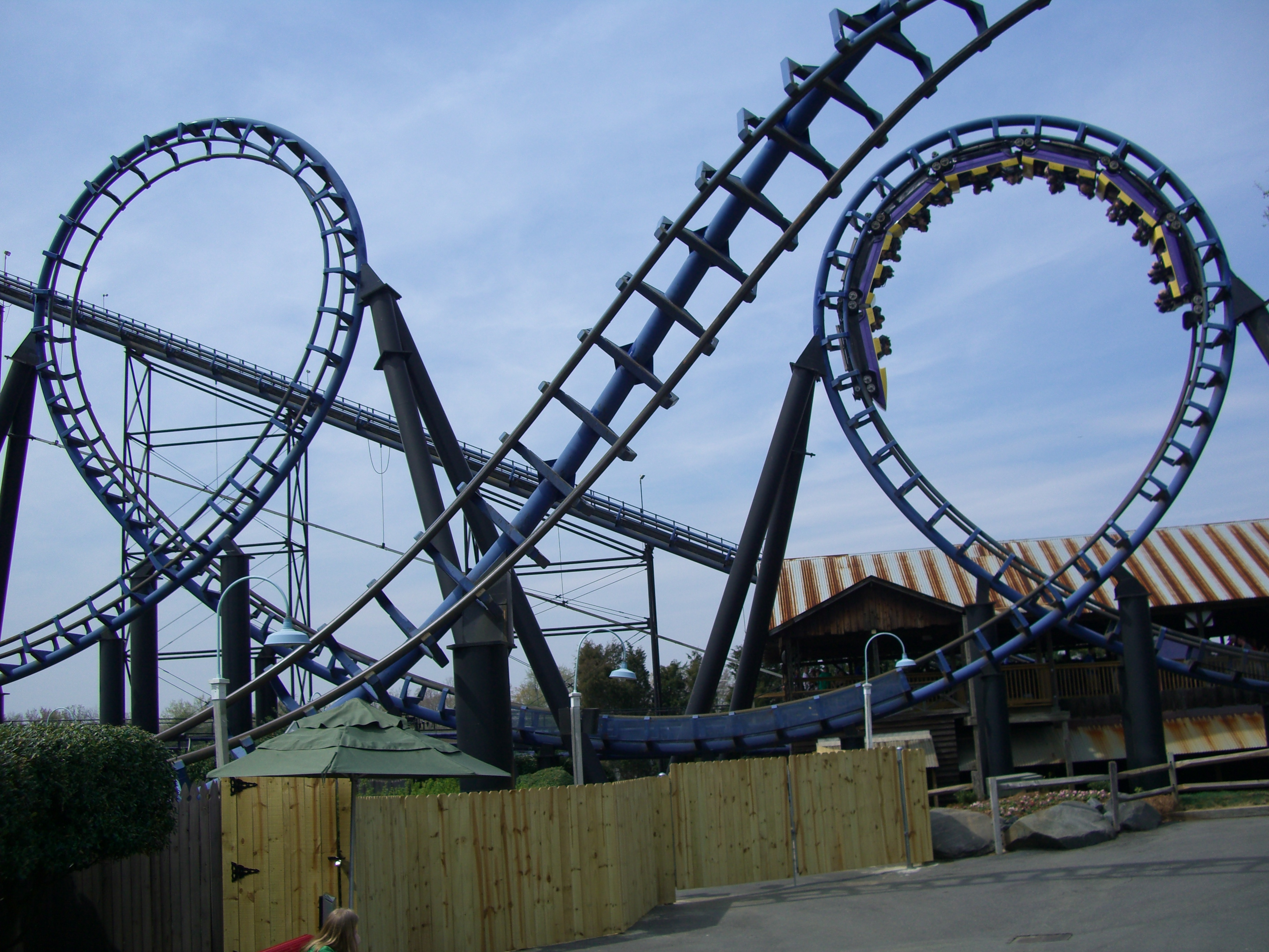 Carolina Cyclone's two consecutive loops at Carowinds. The only requirement of this license is that you give me credit, otherwise the image is free.